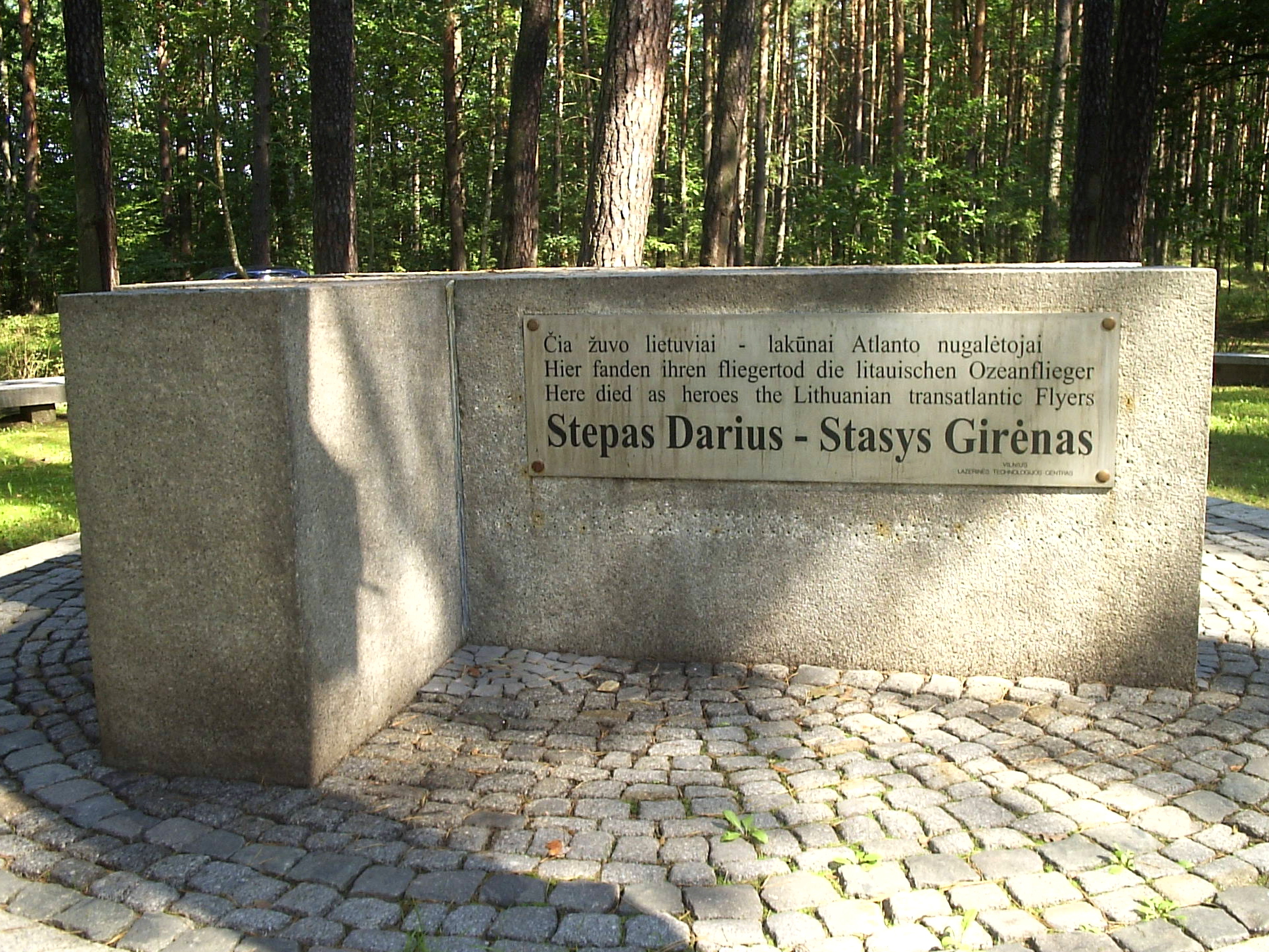 Pszczelnik, Poland